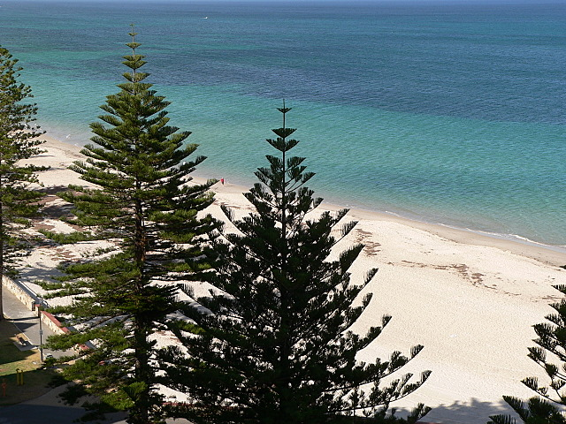 The Glenelg beach and foreshore pine trees as seen from the Stamford Grand hotel